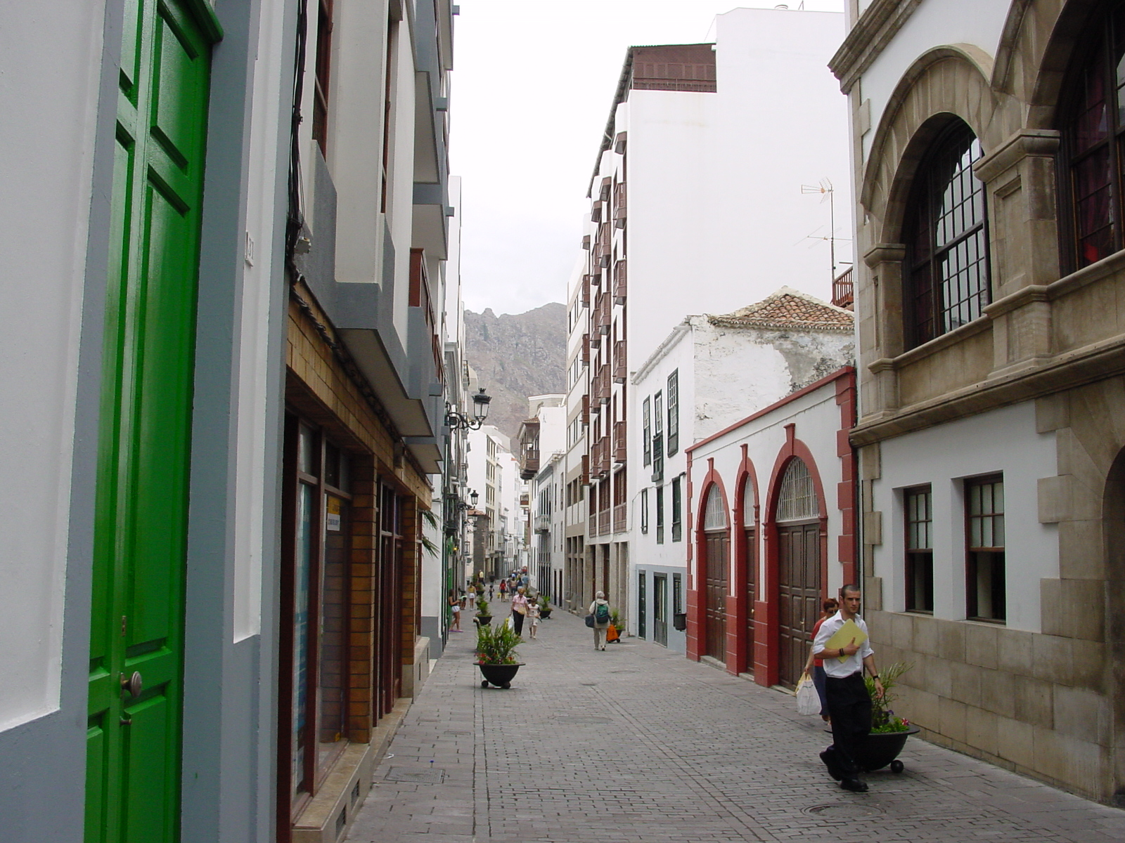 Santa Cruz de La Palma.